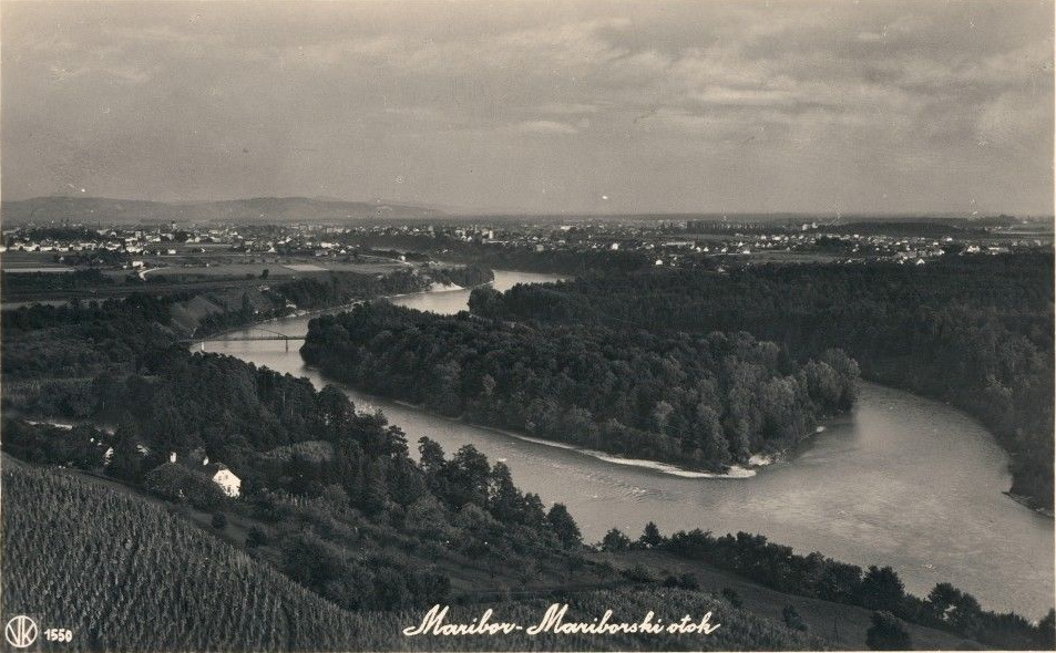 Postcard of Maribor.